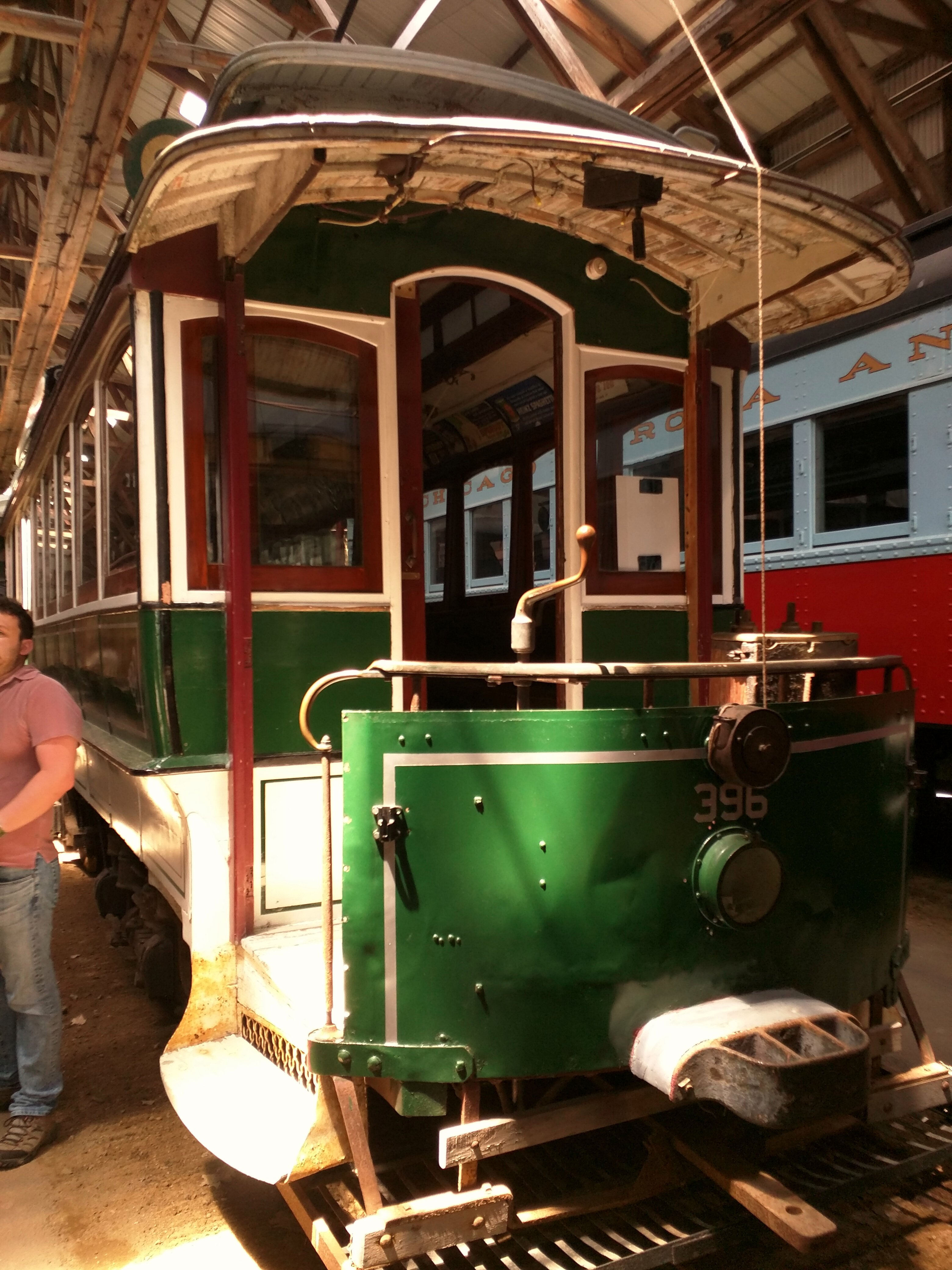 Streetcar #396, built for Boston's West End Street Railway in 1900. Converted to an electrical test car in 1922, it was sold to the Seashore Trolley Museum in 1954. In 1962, the MTA restored it to its 1915 appearance (BERy livery) for the film The Cardinal, with scenes filmed in Belmont.